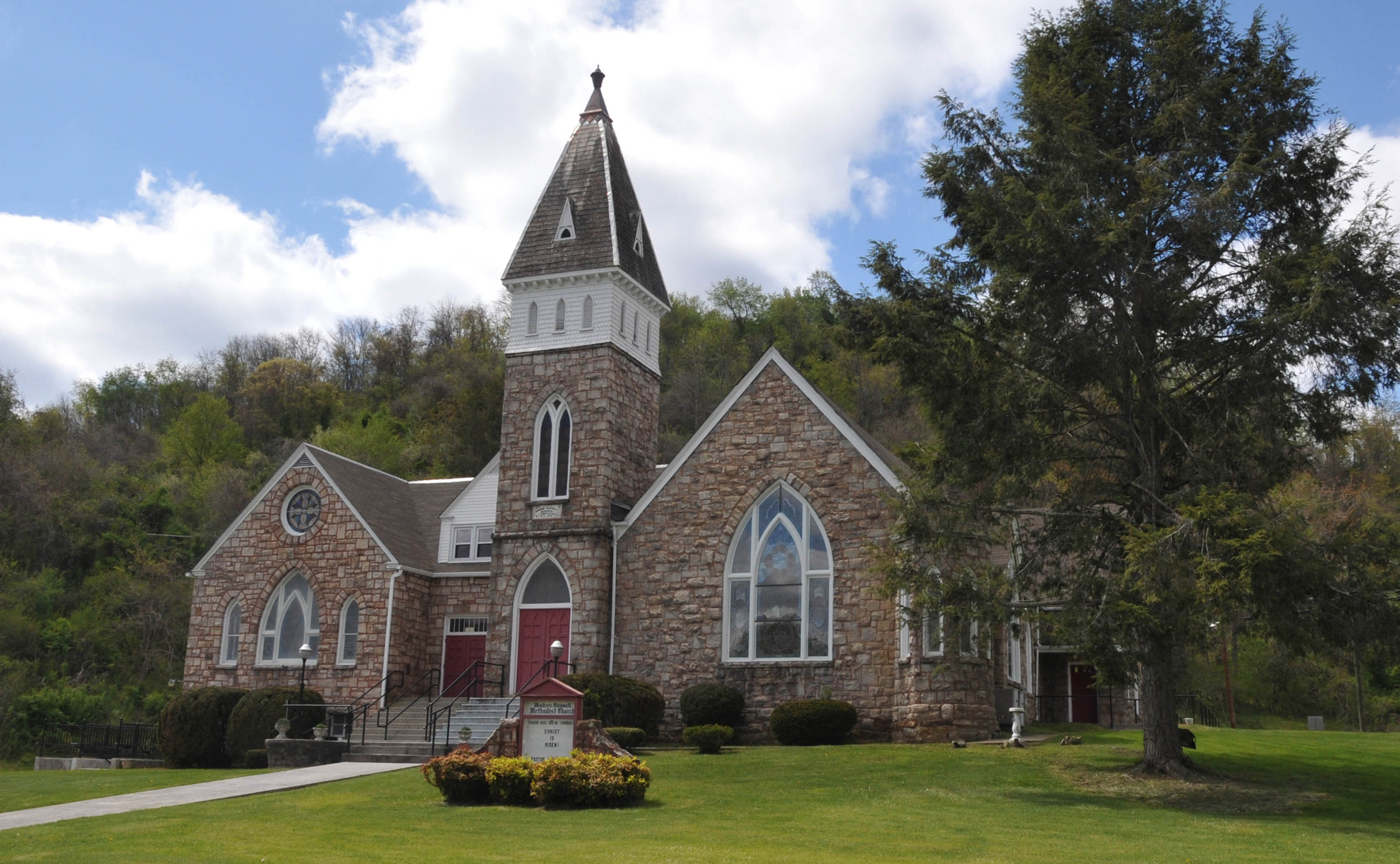 MADAM RUSSELL MEMORIAL METHODIST CHURCH ON MAIN STREET. NAMED FOR THE SISTER OF PATRICK HENRY. A REPLICA OF THE CABIN SHE LIVED IS JUST ADJACENT TO THE CHURCH